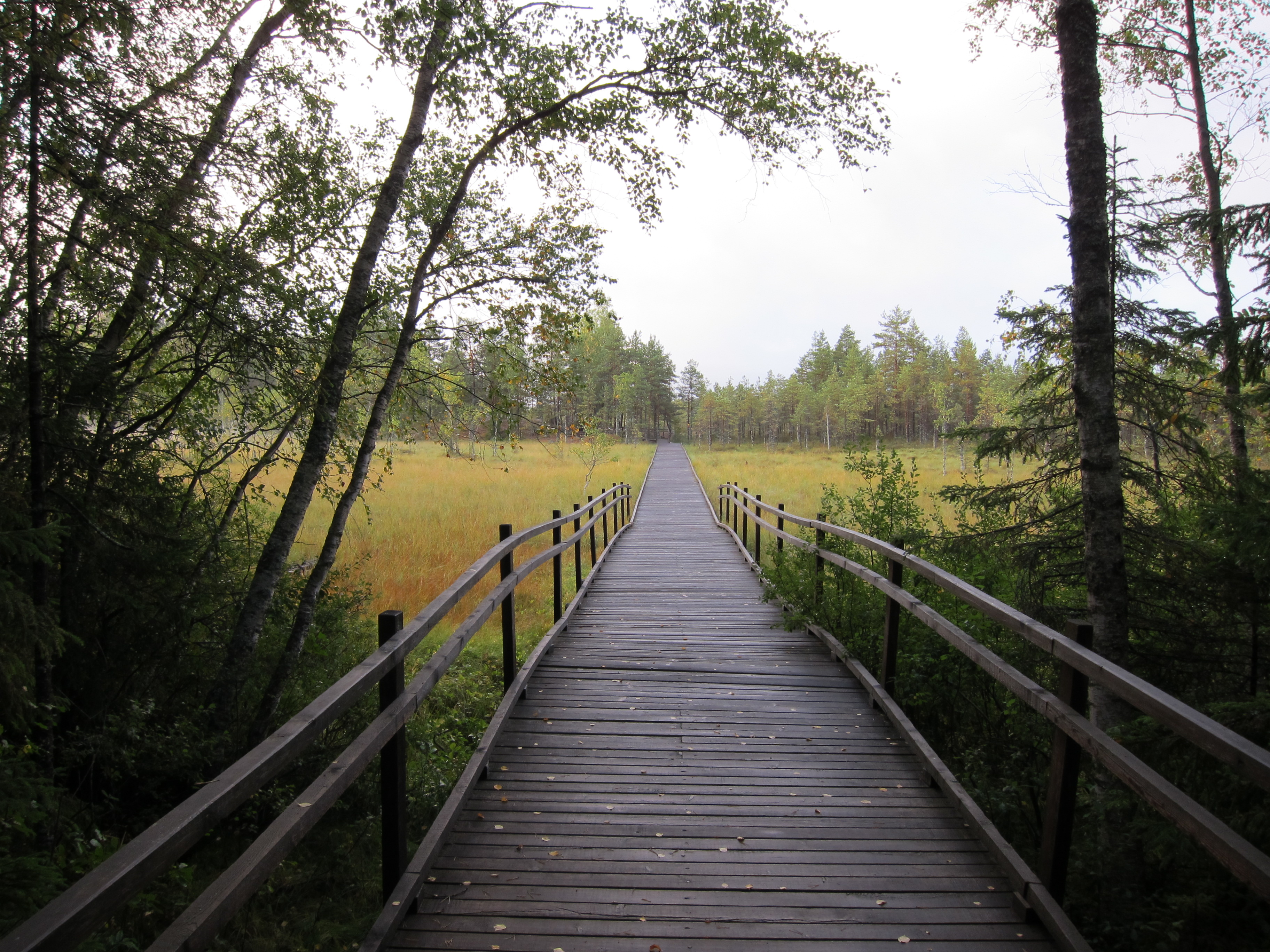 Wheelchair trail in Kurjenrahka National Park, Finland.